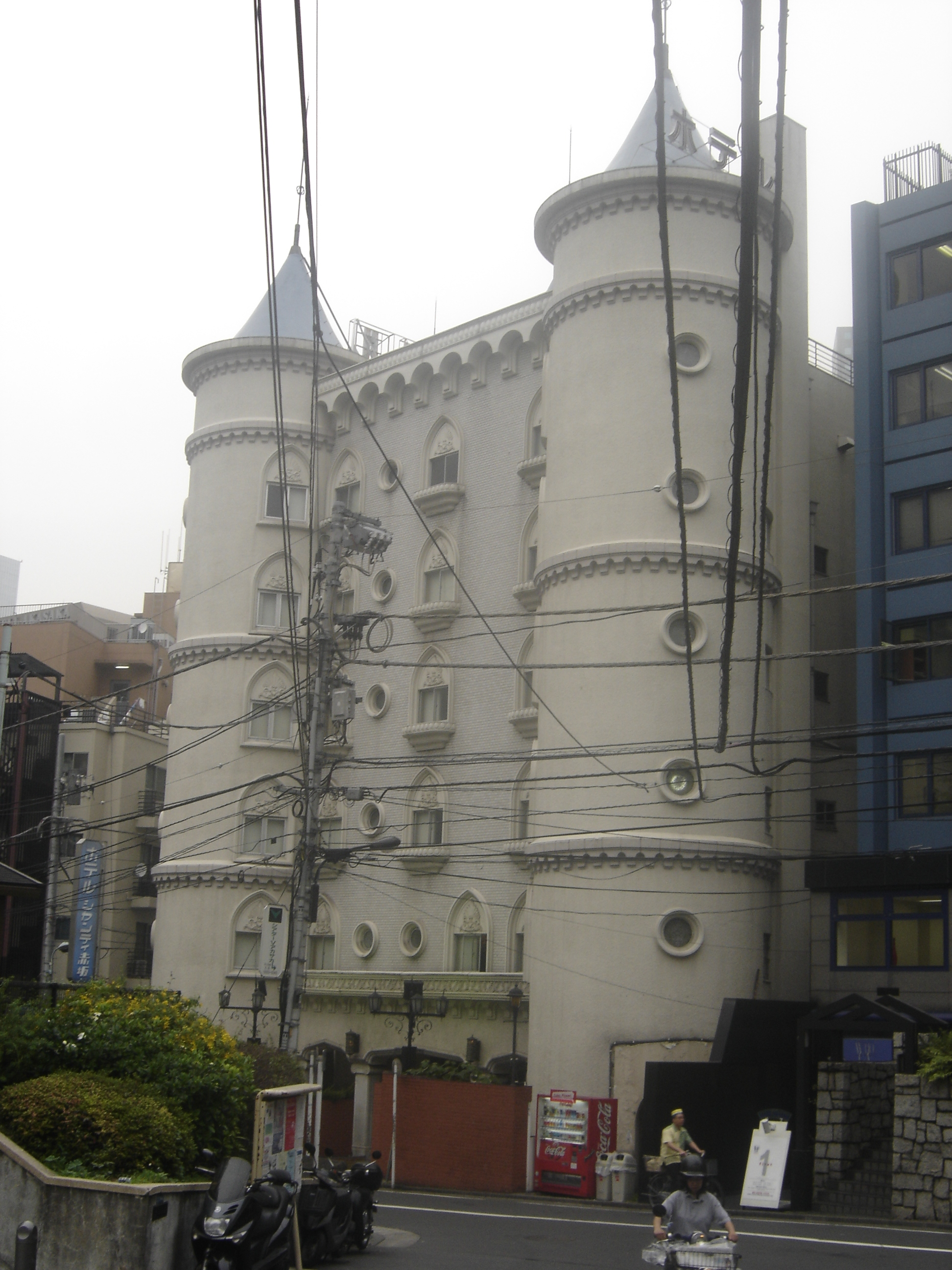 A picture of a love hotel designed to look like a castle in the Akasaka district of Tokyo, Japan.